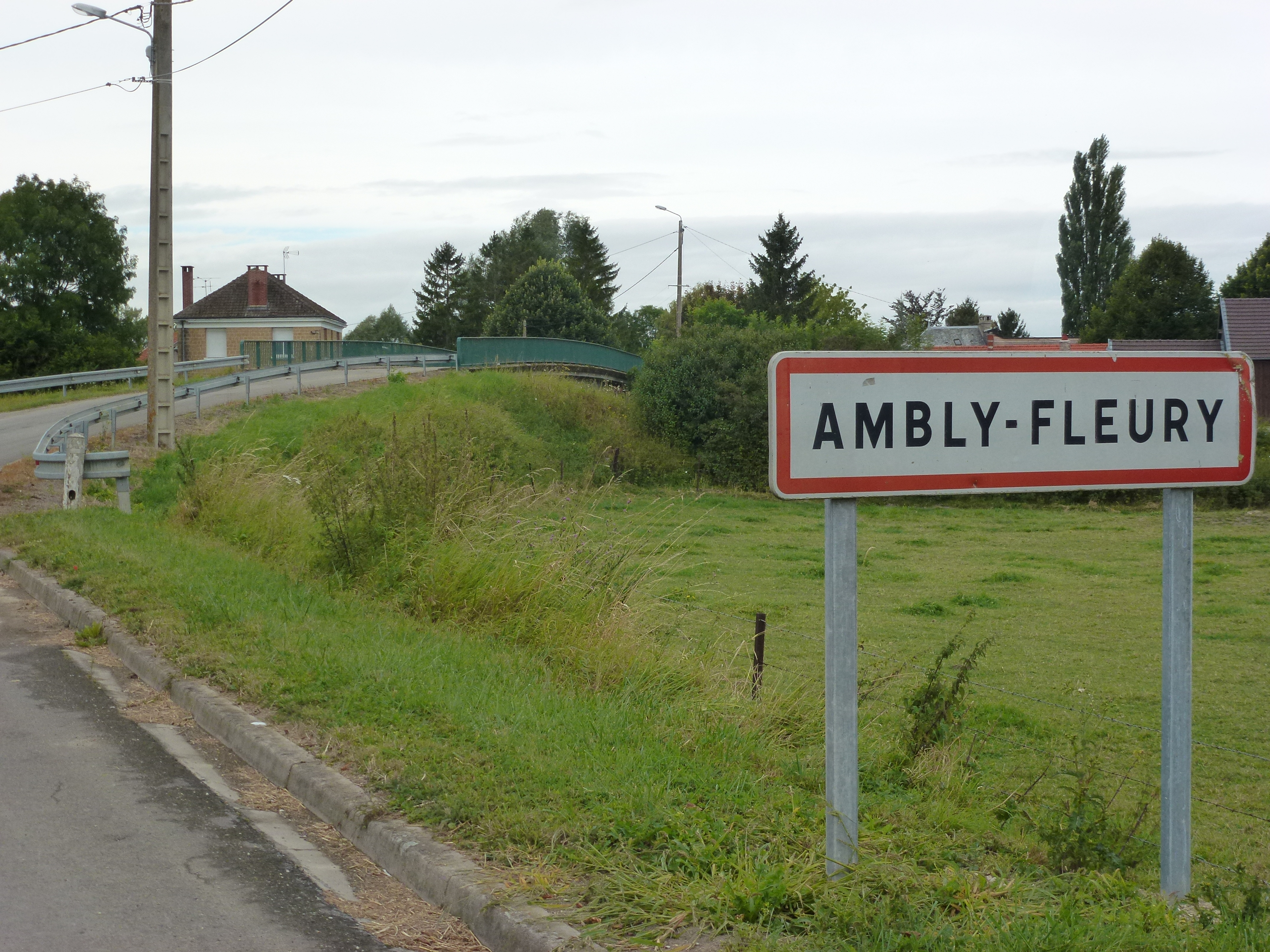 Ambly-Fleury (Ardennes) city limit sign and bridge Canal des Ardennes